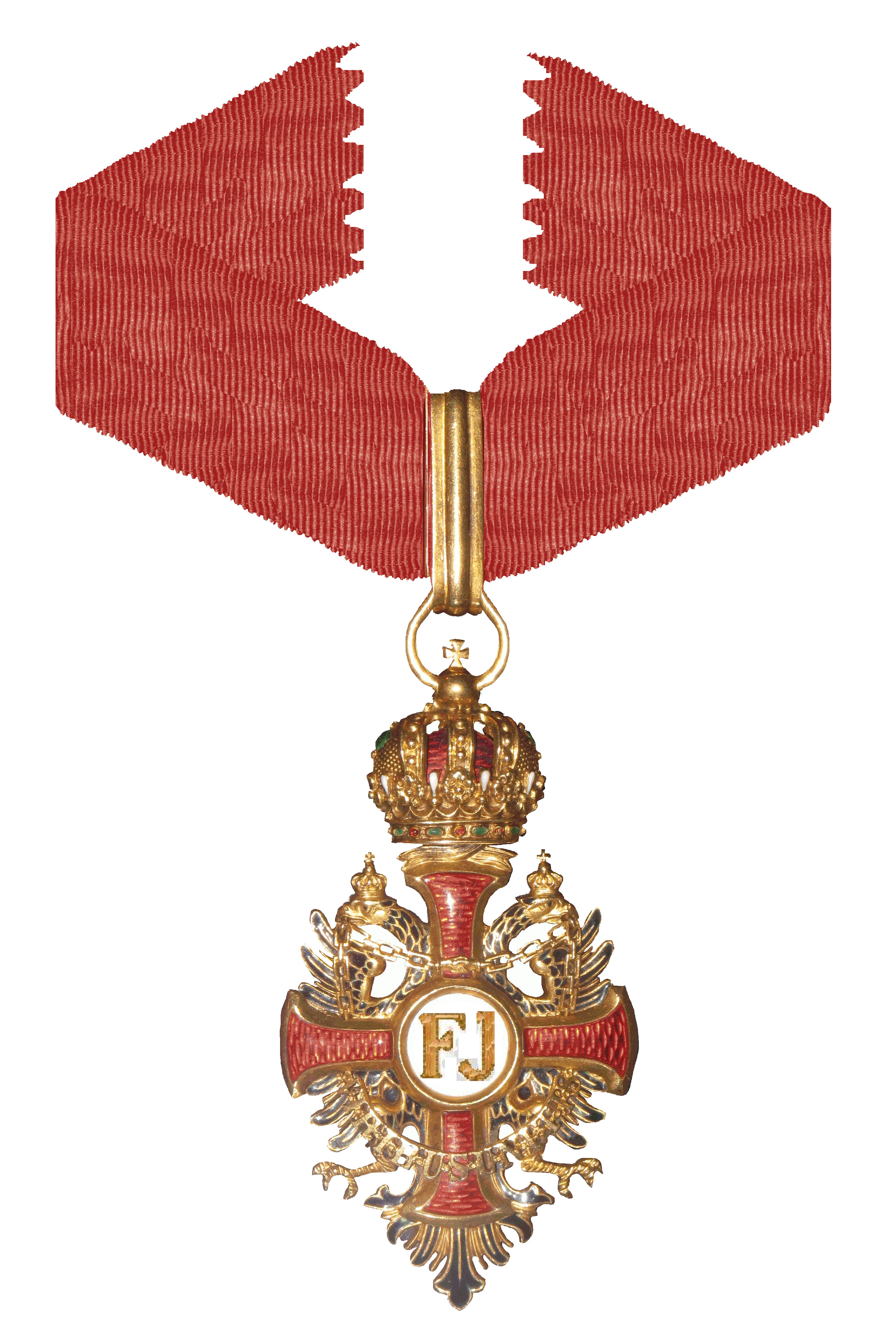 Order of Francis Joseph Franzs Joseph-Orden